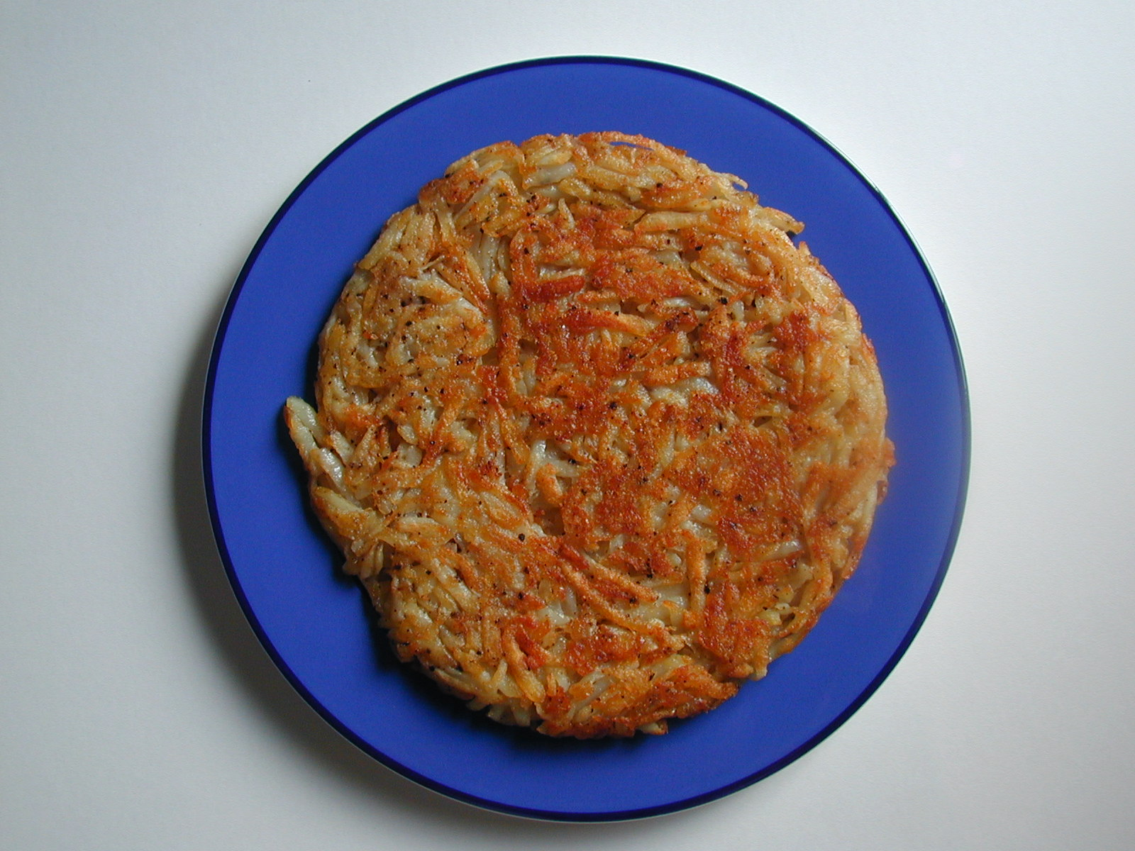 Rösti, made in Tokyo on 23rd October 2002. This picture has taken by Encoded 9 on 23rd October 2002.